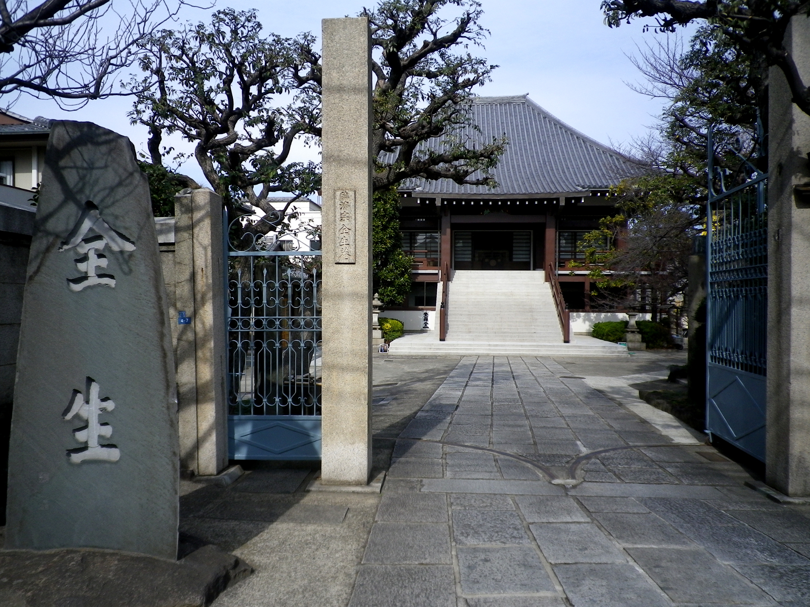 Zenshōan temple in Taitō, Tokyo